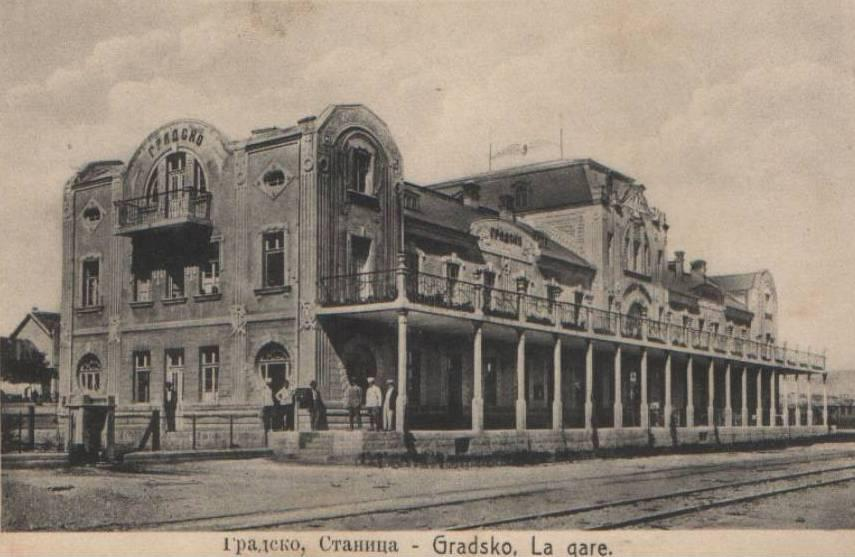 Old train station in Gradsko, Macedonia